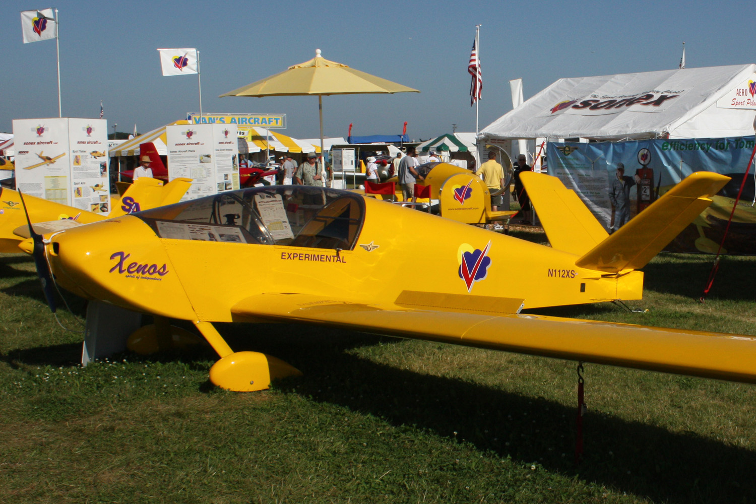 Sonex Aircraft Xenos (N112XS) at Airventure 2008